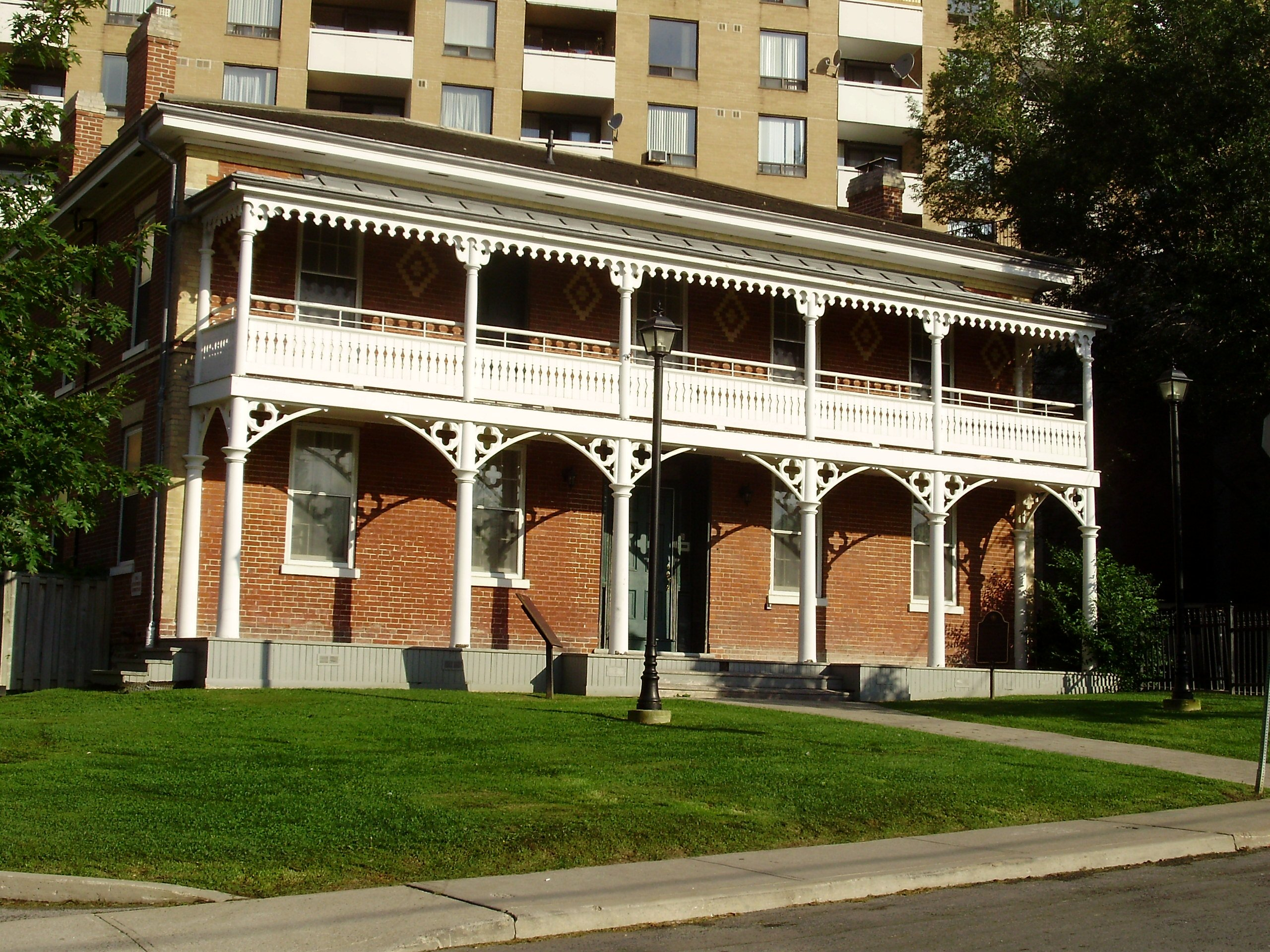 The historic Lambton House, built as a hotel in the nineteenth century, in the Lambton Baby Point neighbourhood of Toronto, Ontario, Canada.